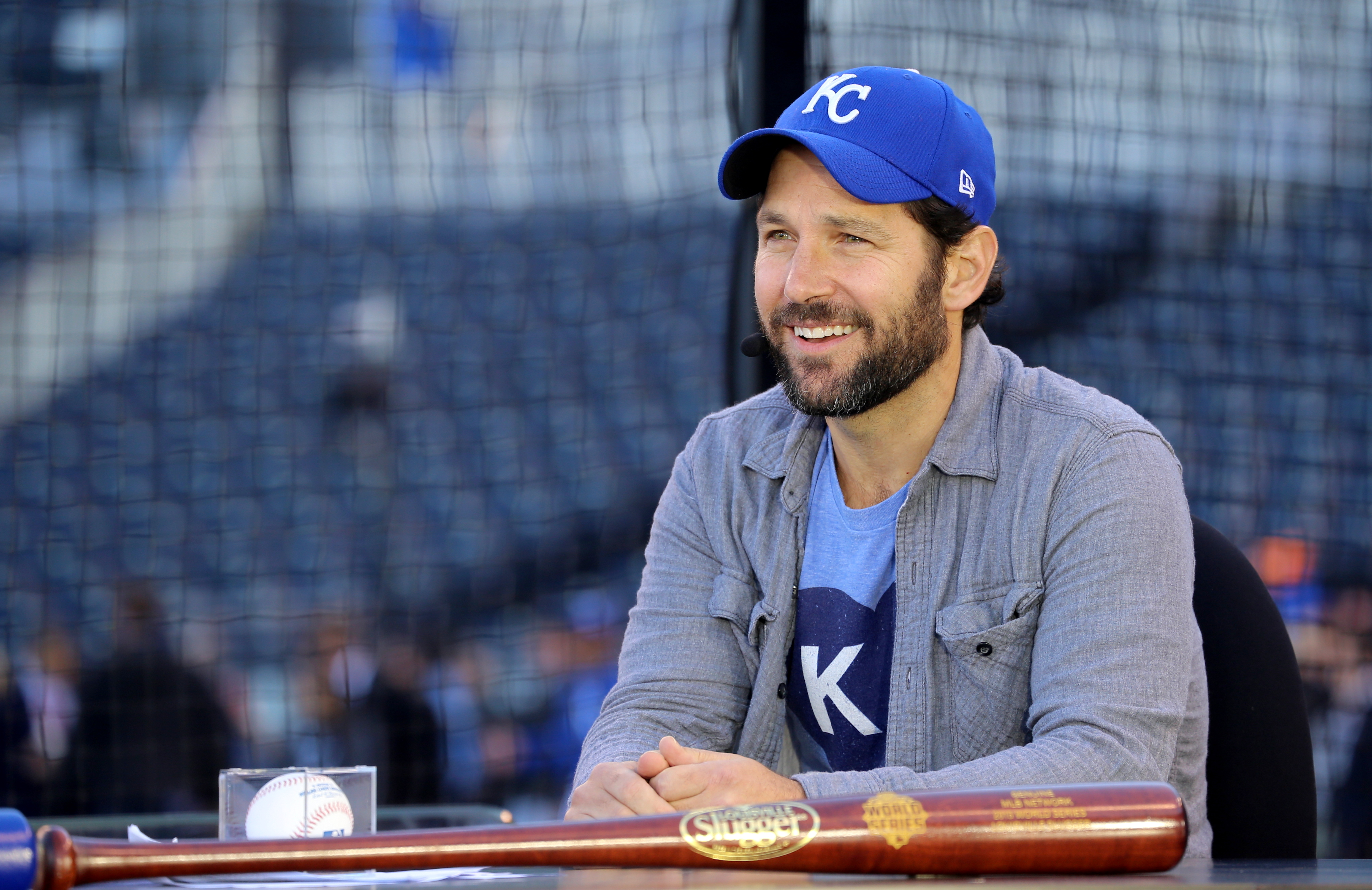 Paul Rudd on MLB Network's Intentional Talk.